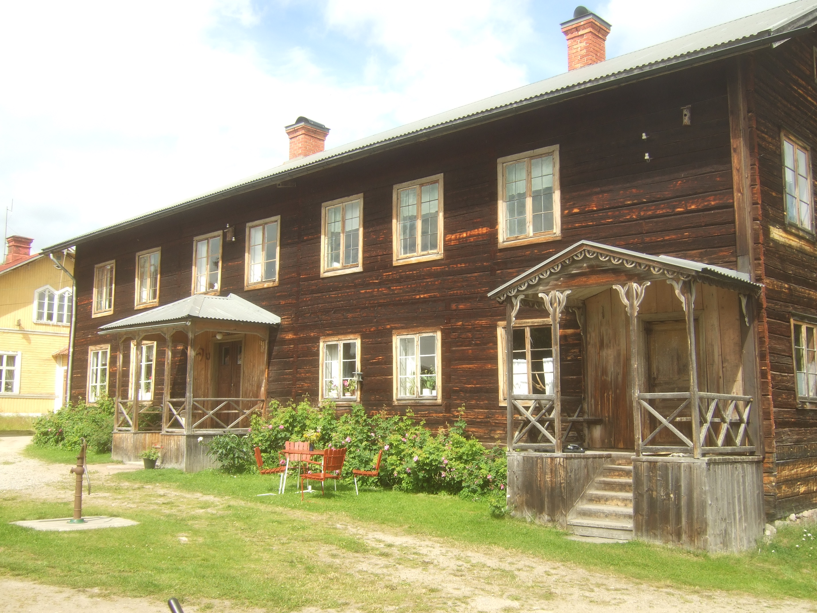 The farm "Bommars" at Letsbo brovägen 8, Tallåsen in Ljusdal Municipality. Main building "Vinterstugan", viewed from south.